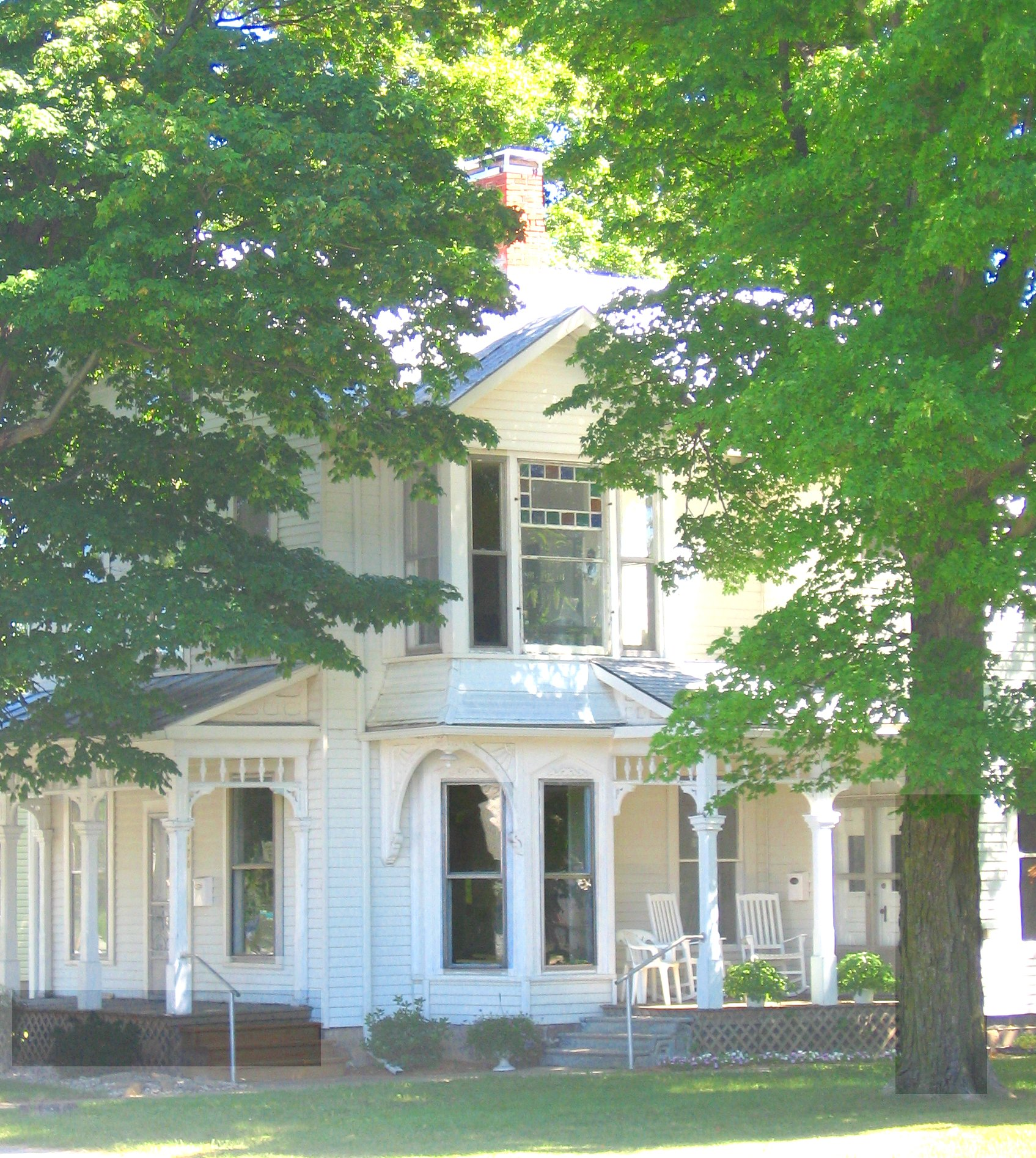 The Parker House, Orland, Indiana, was owned by John G. Parker and his wife Elmira J. Parker, daughter of Michigan Governor Cyrus Gray Luce. It was also used as an Underground Railroad stop.[1] Today it is known to people in Orland as the Ernsberger house, after Henry and Helen Ernsberger, who lived in the house for almost fifty years.